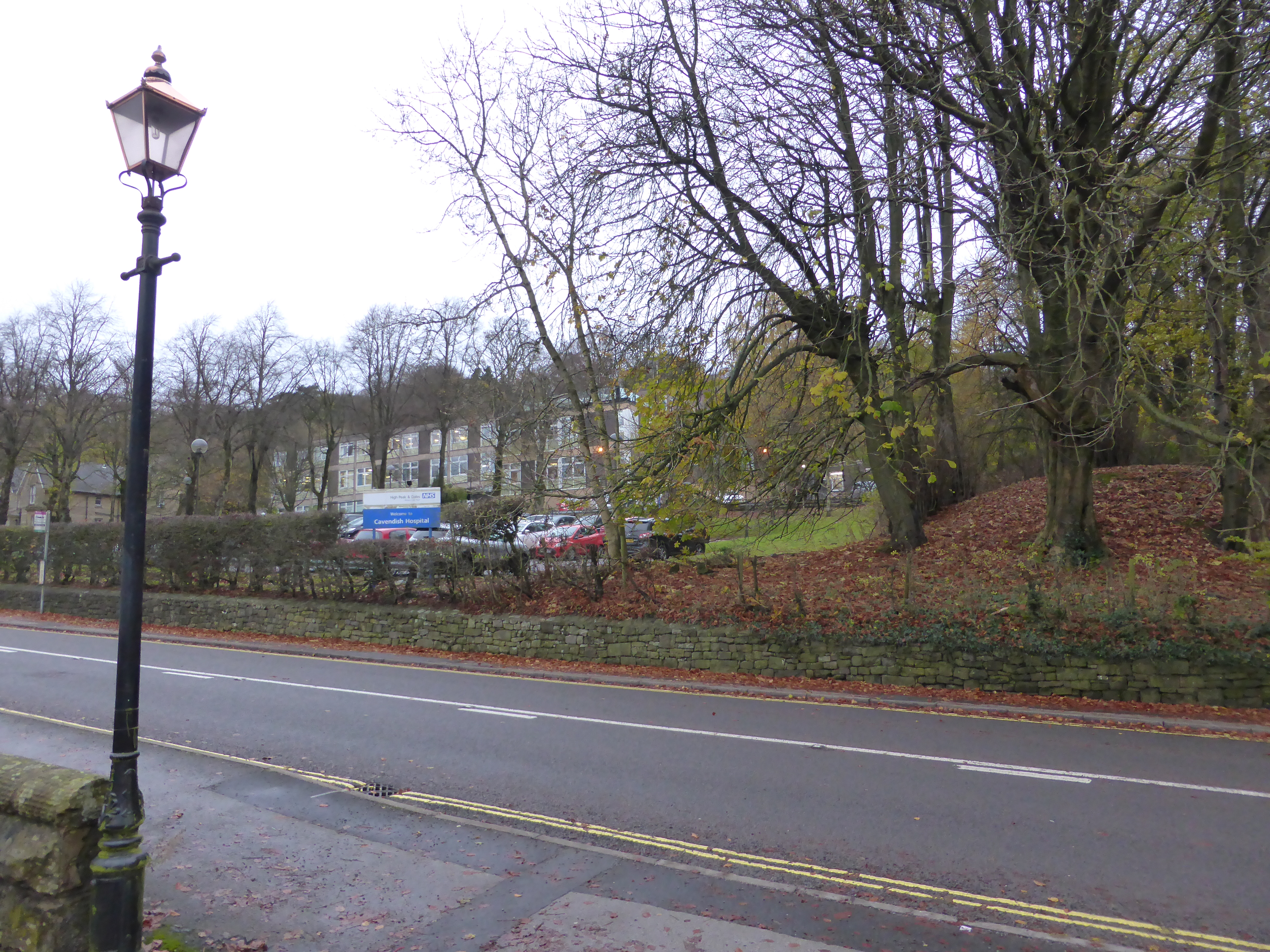 1970s Hospital